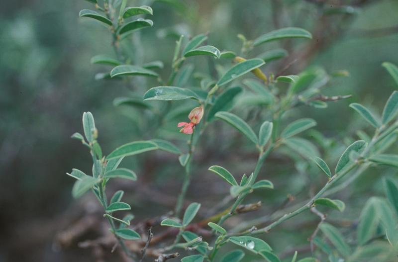 Indigofera oblongifolia